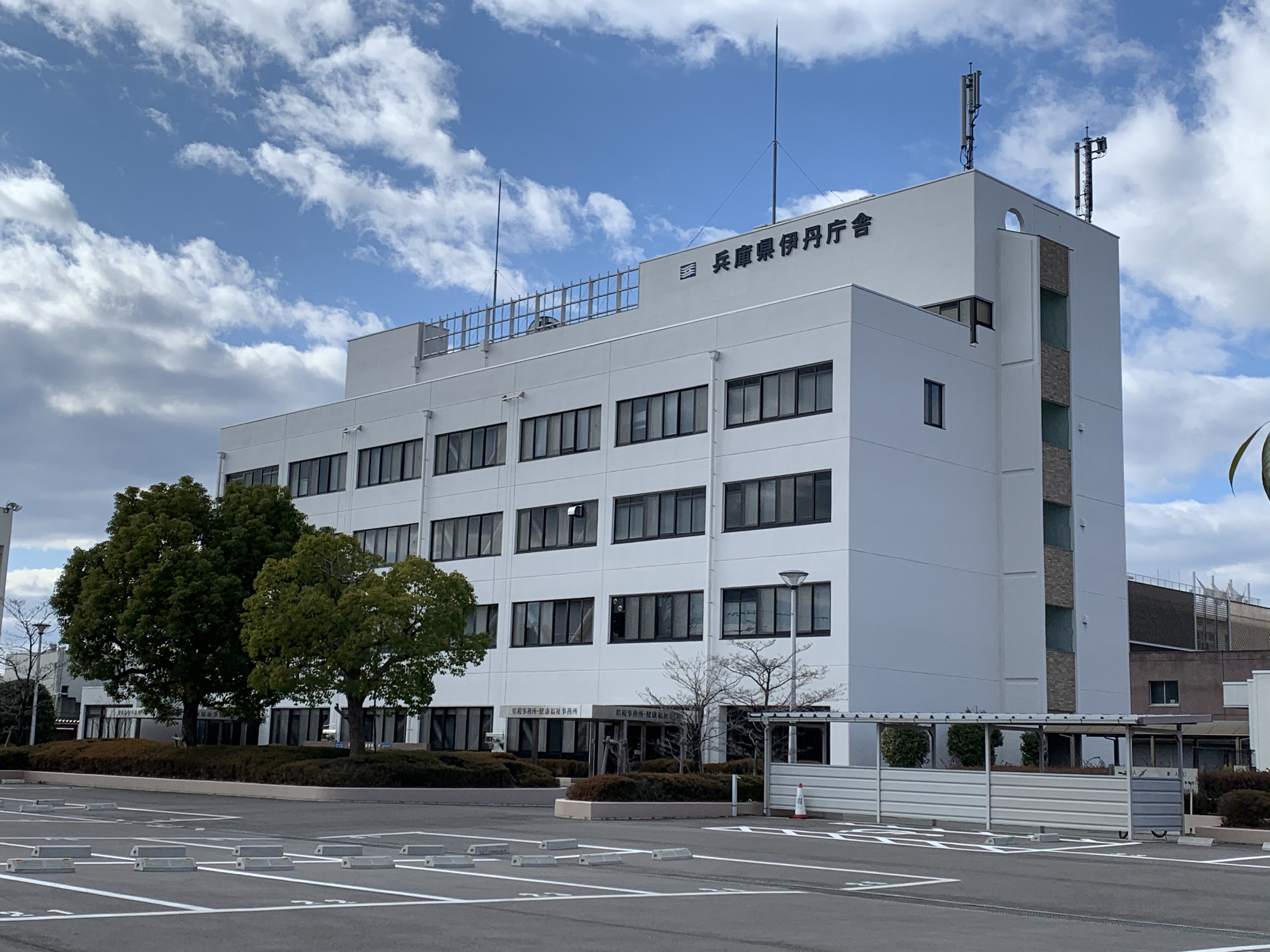 Itami branch office of Hyogo prefectural goverment.